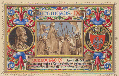 Pope Benedict IX with coats of arms